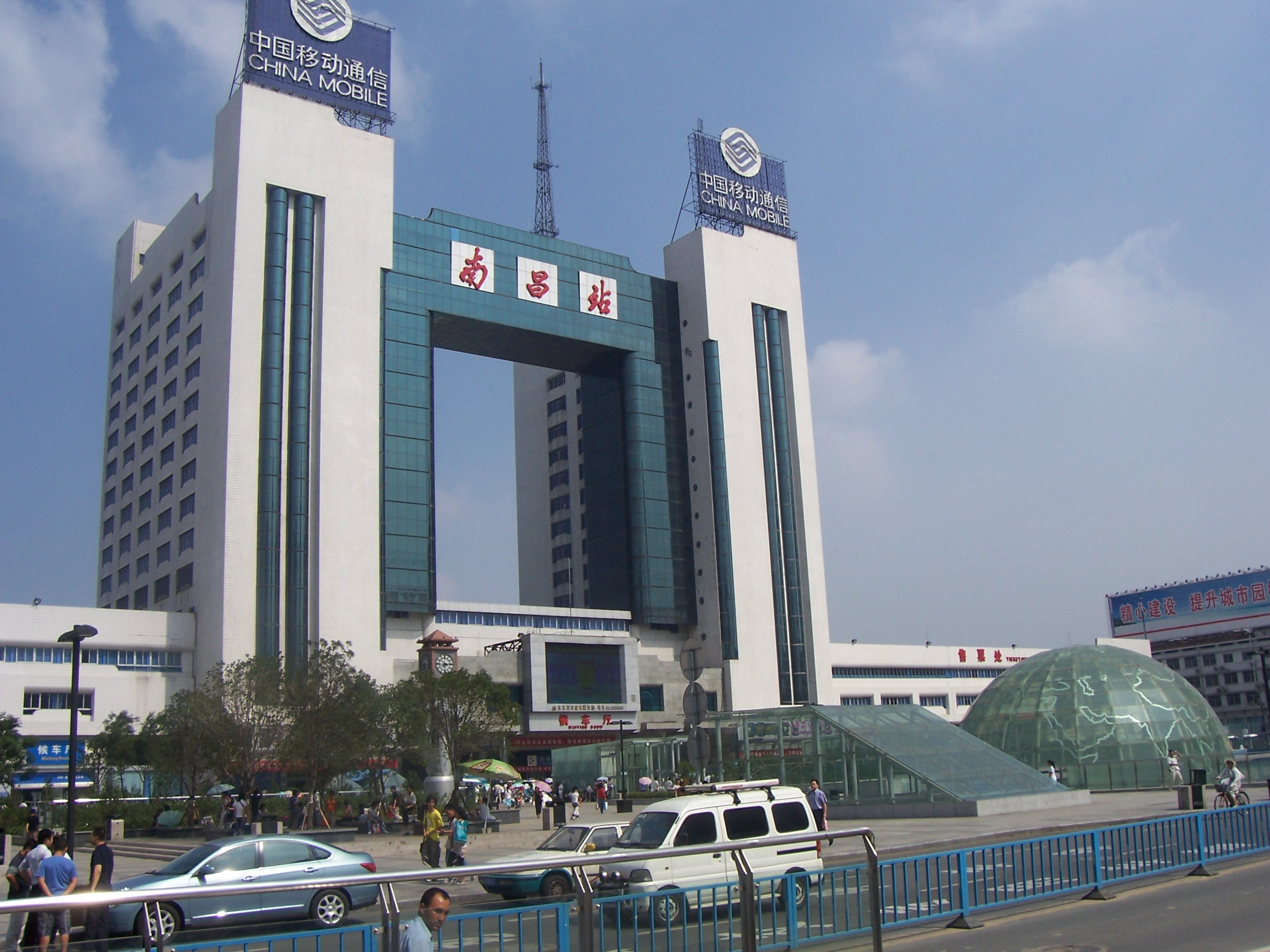 Nanchang Railway Station after the substantially repair of the station square in 2007.